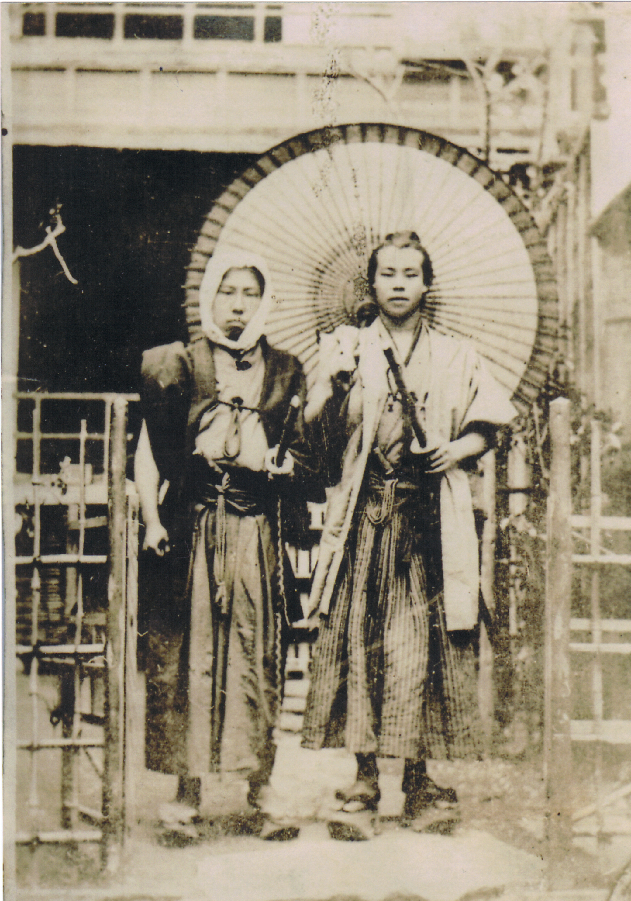 Samurai in old Japan. (L)Unknown person (R)Umanosuke Kashio （柏尾馬之助）/ He lived from the late Tokugawa period to the Meiji era. He belonged to Shogunate guard organization "Shinchogumi"（新徴組）, and he was a professor of the kenjutsu. He was a master of the kendo. However, became a revolutionist later. (They are called "Shishi"（志士） in Japan.) 柏尾 馬之助 (Kashio Umanosuke Wikipedia)